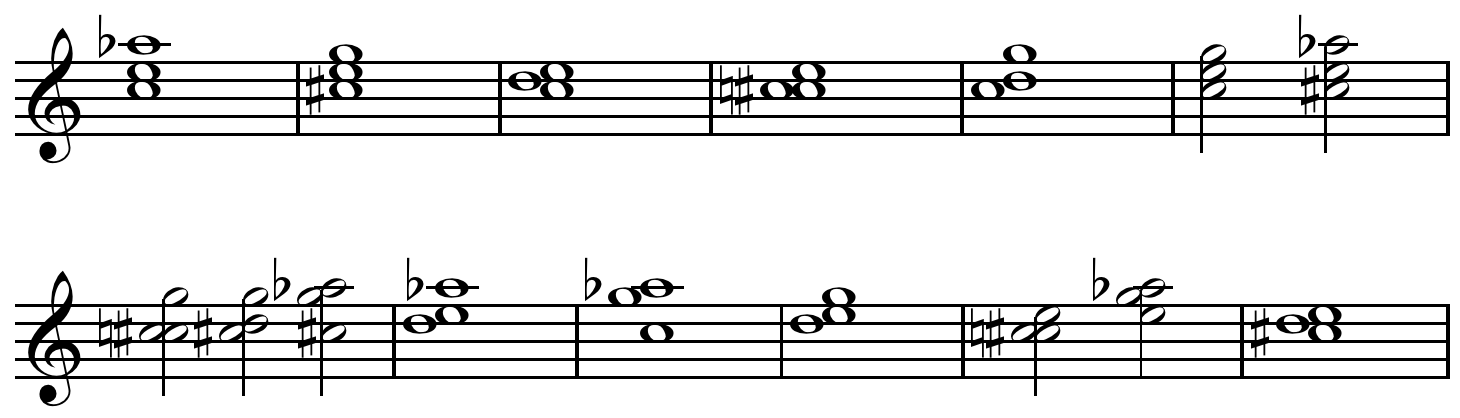 All-interval hexachord triads